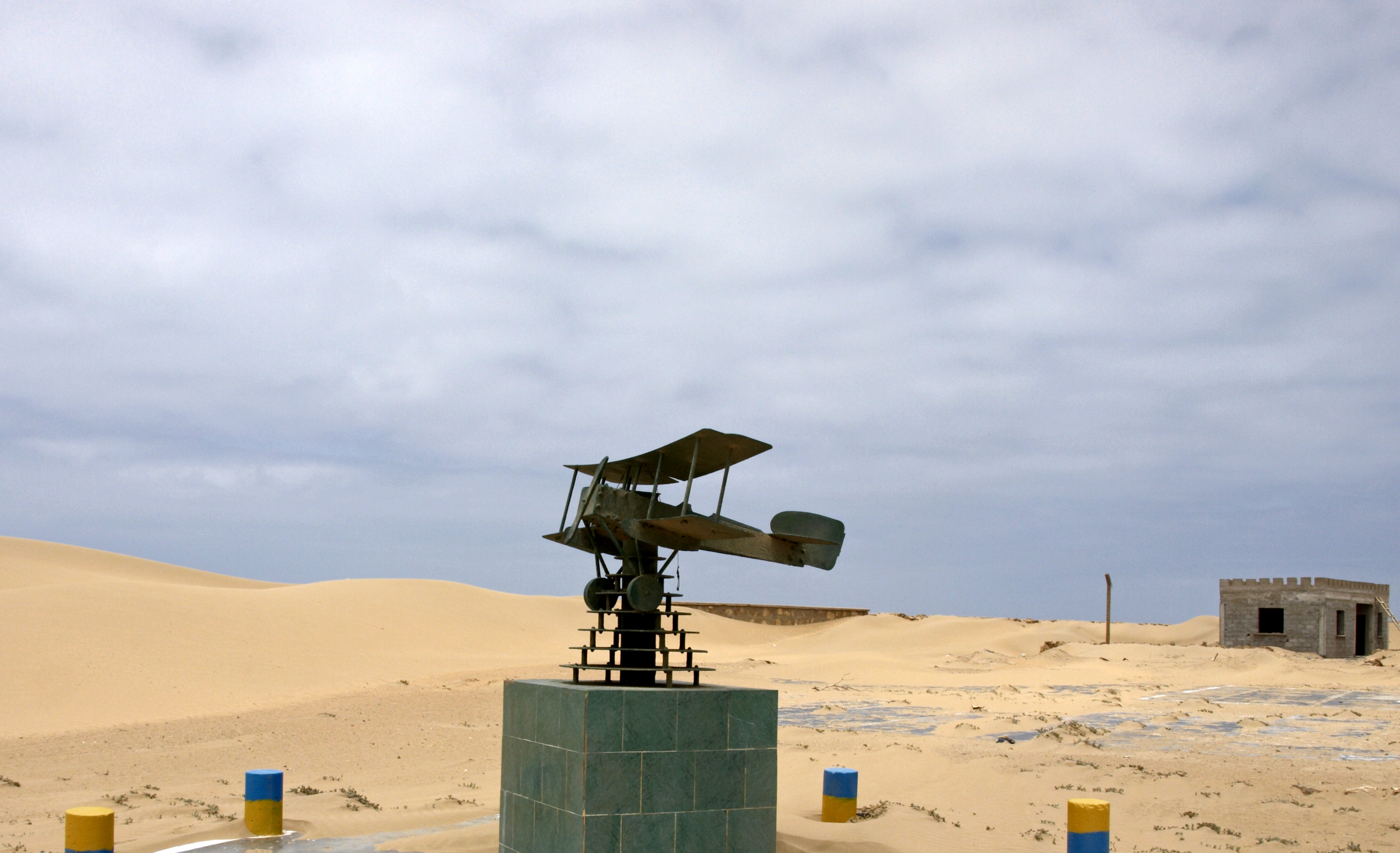 Saint Exupery monument in Tarfaya